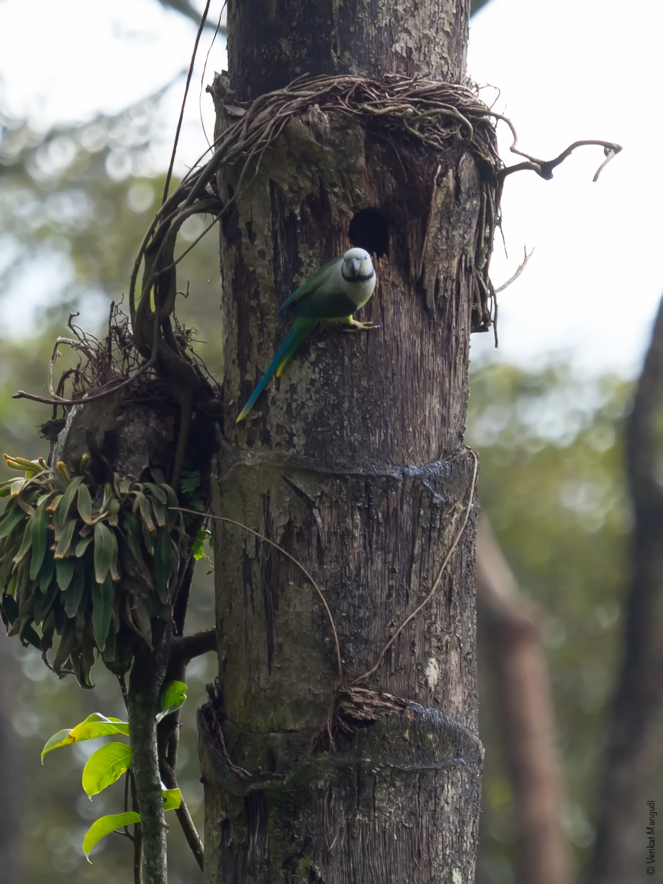 Random Pictures